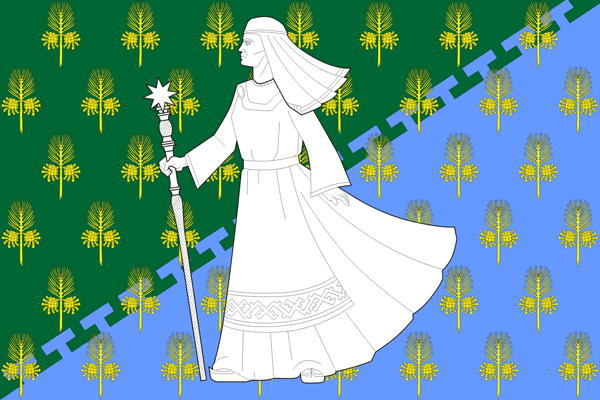 Flag of Loukhi urban settlement, Karelia, Russia